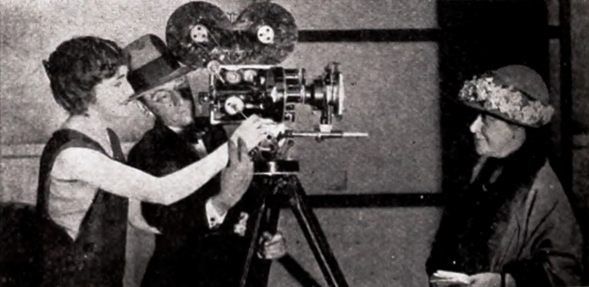 Actress Agnes Ayres, film director Paul Powell, and stage director Lillian Trimble Bradley, on page 40 of the May 6, 1922 Exhibitors Herald.